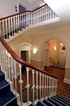 wise conference room